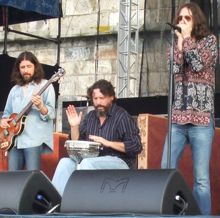 Steve Gorman playing percussion with Black Crowes bandmates Sven Pipien and Chris Robinson